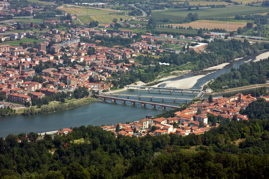 Panorama of San Mauro Torinese, Turin, Italy